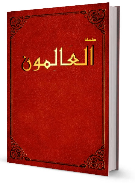 غلاف كتاب عليه اسم العالمون لإشارة حول السلسلة